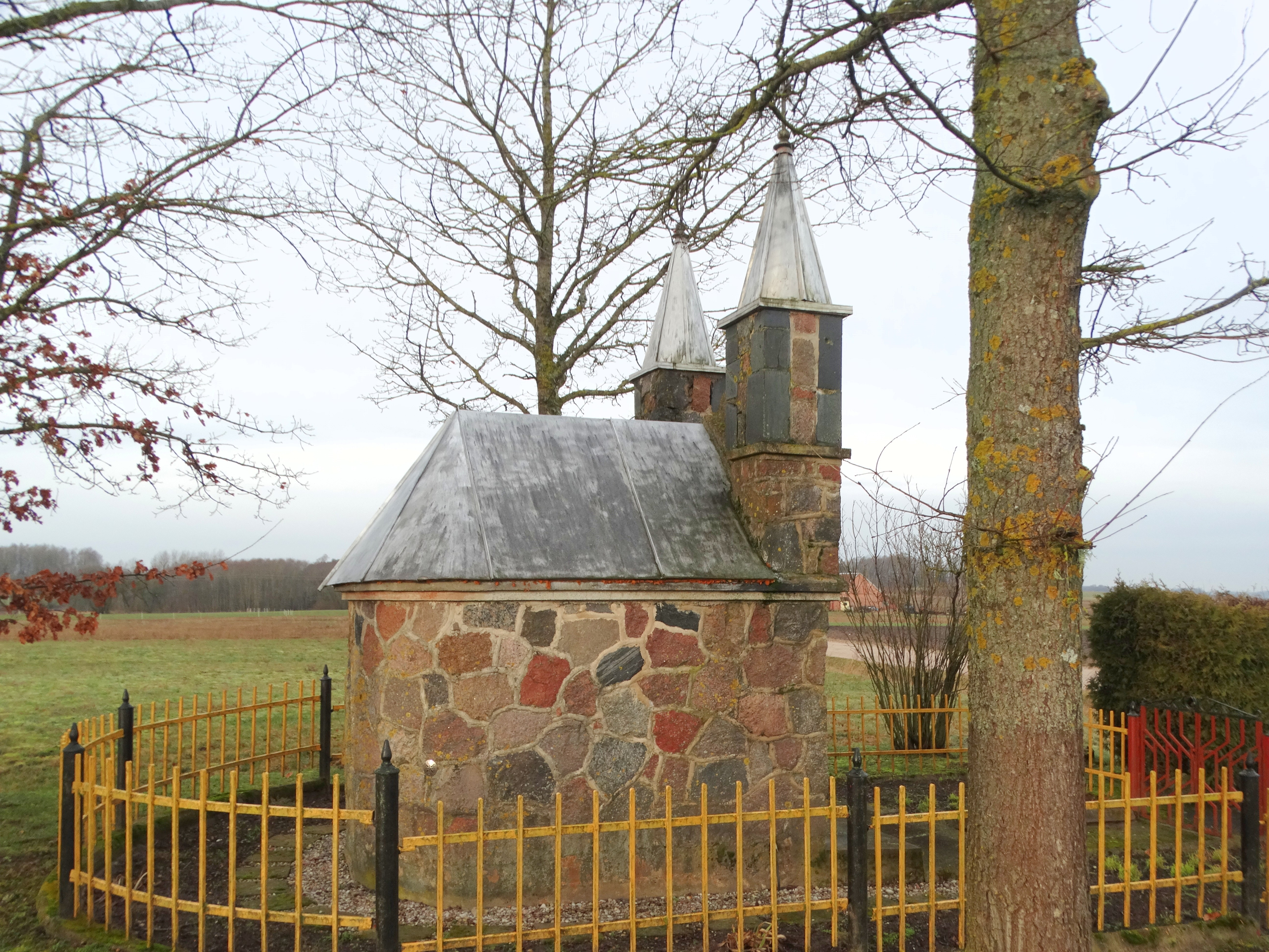 Narvydžiai chapel, Skuodas District, Lithuania